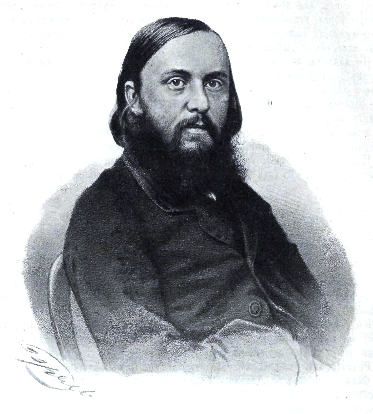 Portrait of Russian poet Vasily Kurochkin (1831-1875).